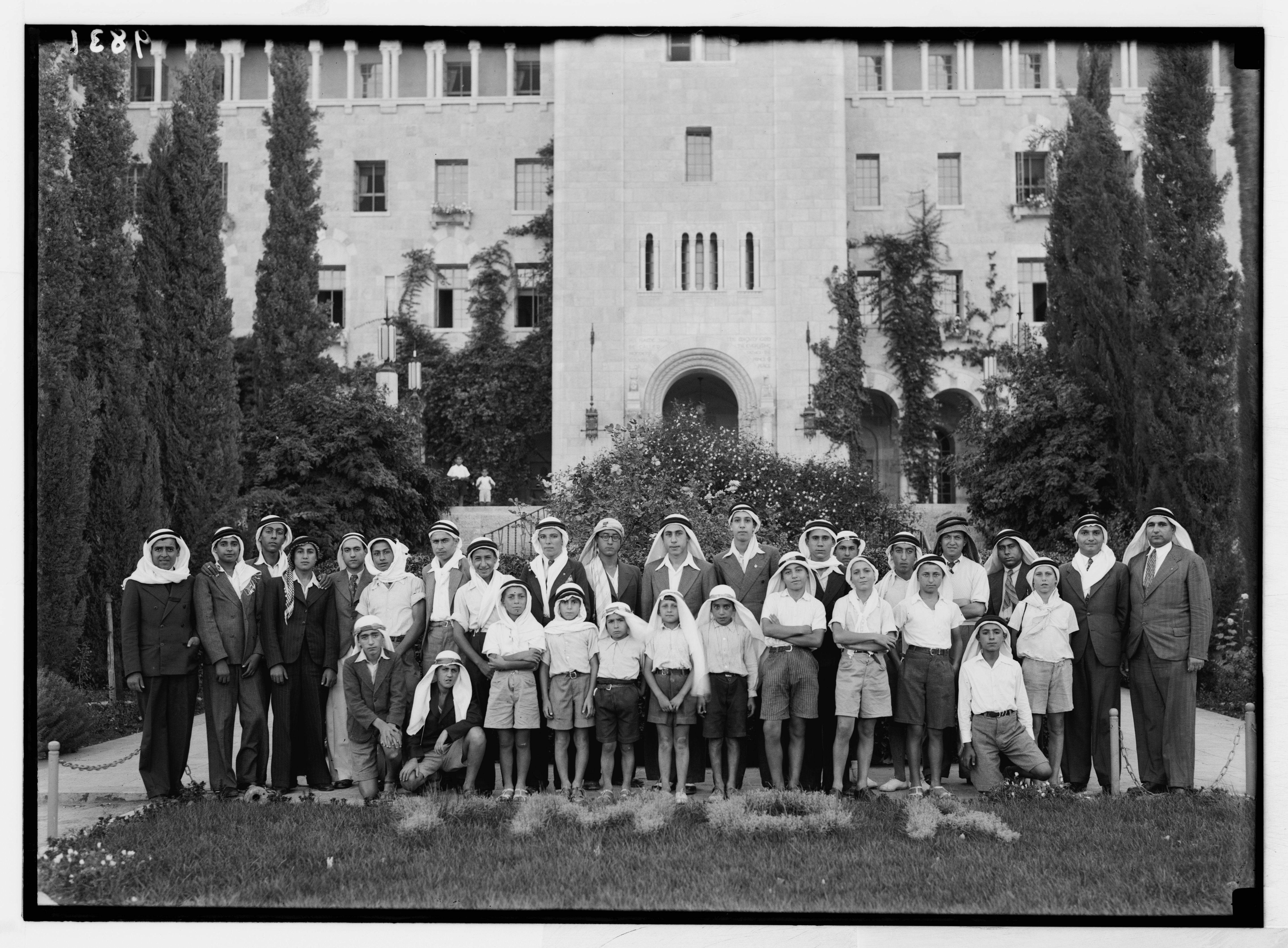 YMCA arab boys Jerusalem. Original caption: Group of Christian Arab Y.M.C.A. boys wearing kaffiyehs & ikals.